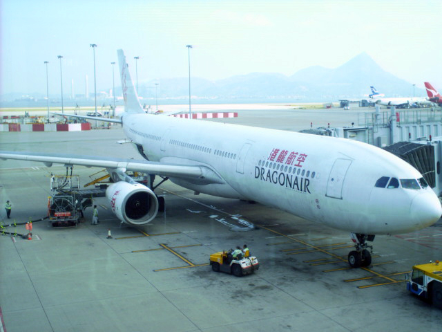 A picture of a Dragon Air plane in the Hong Kong Airport.